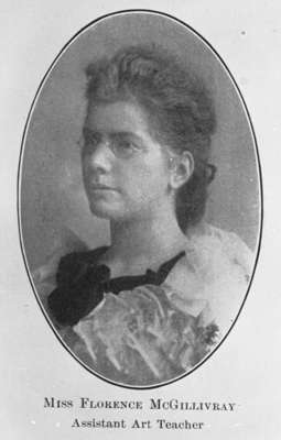 This is a black and white portrait of Florence Helena McGillivray (1864-1938). Born in Whitby Township, Ontario 1864-03-01, died 1938-05-07 in Toronto. Interred at Union Cemetery, Oshawa.